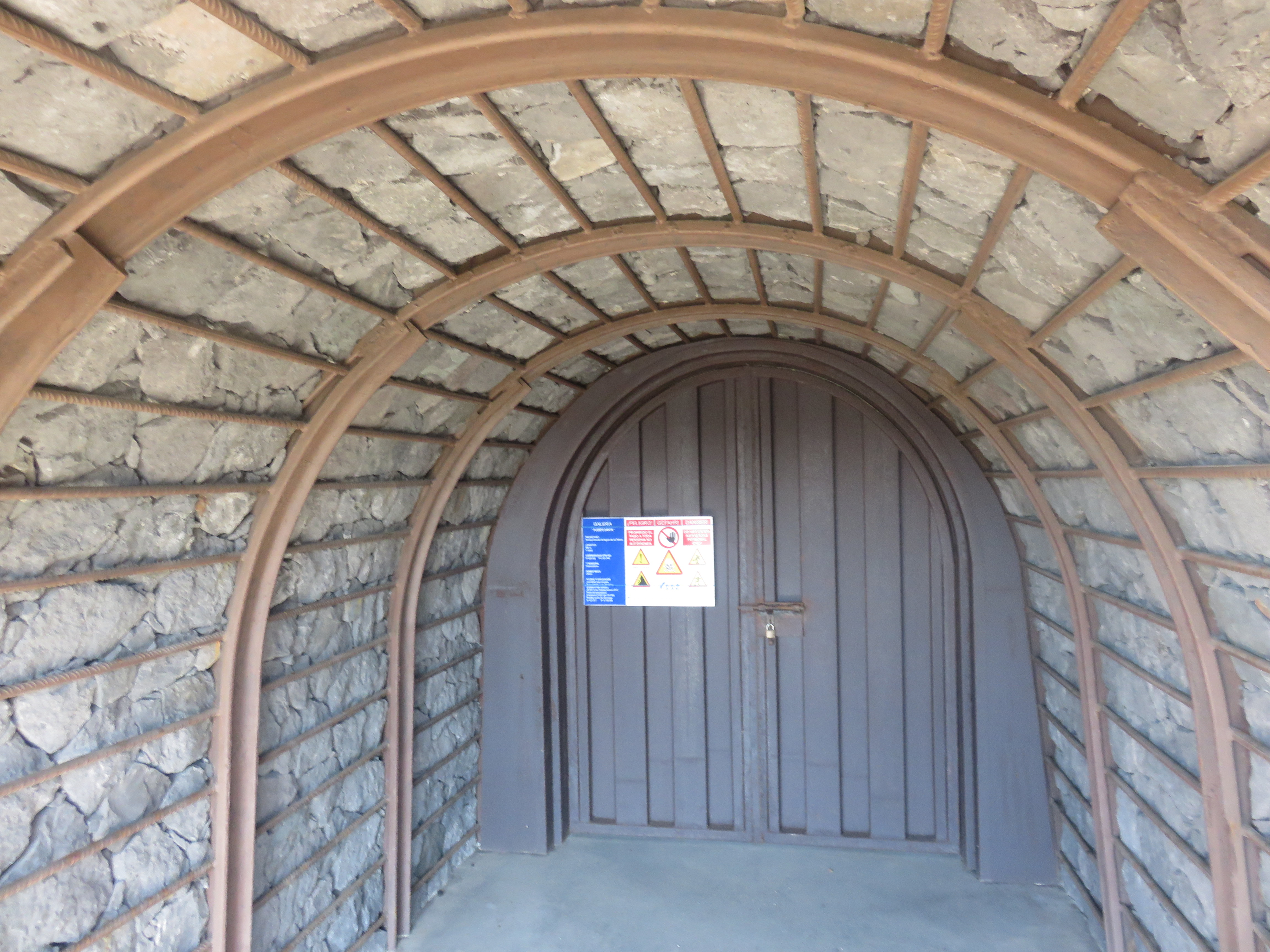 In the entrance area of the gallery Fuente Santa in Fuencaliente, La Palma.